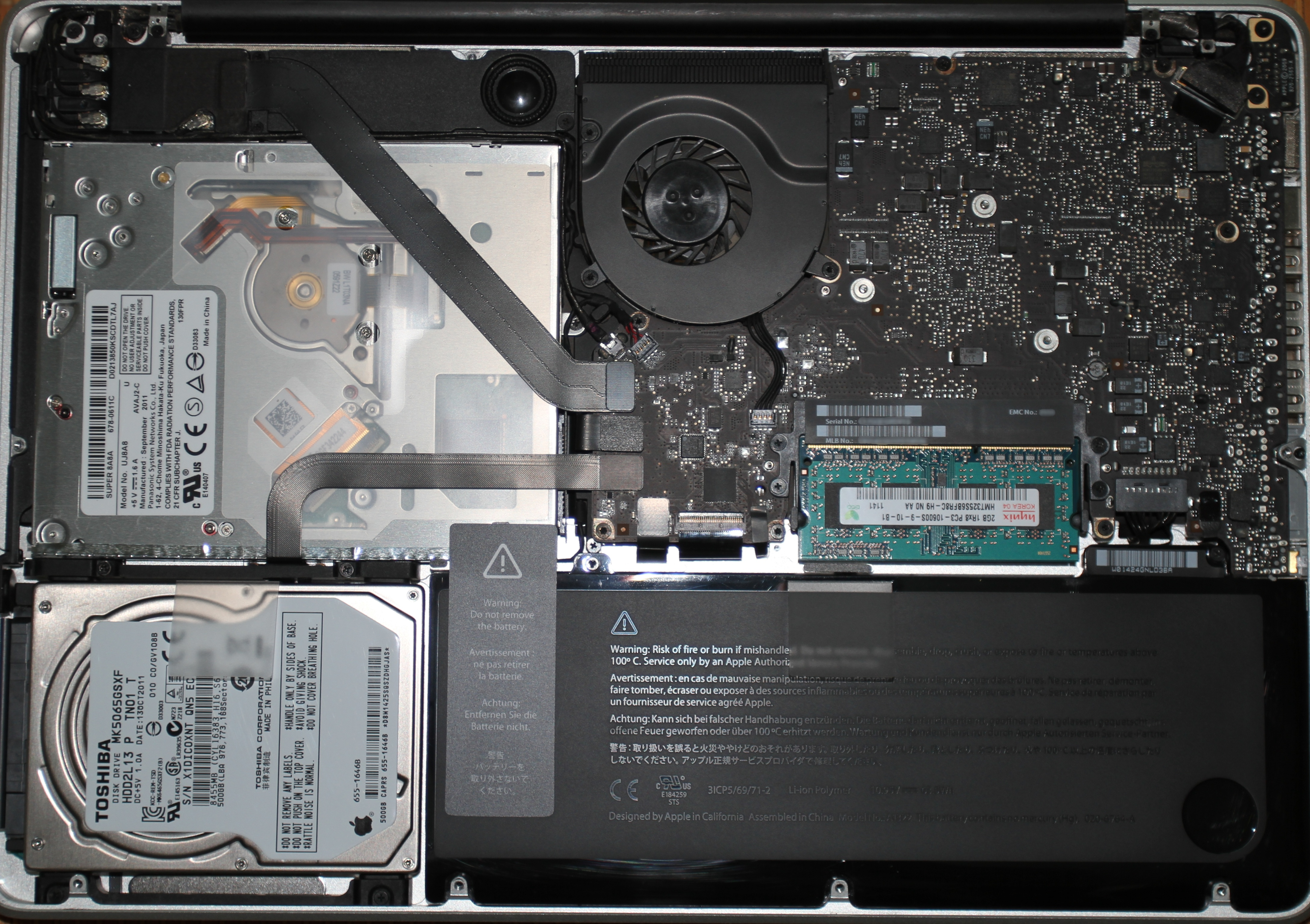 MacBook Pro mainboard.